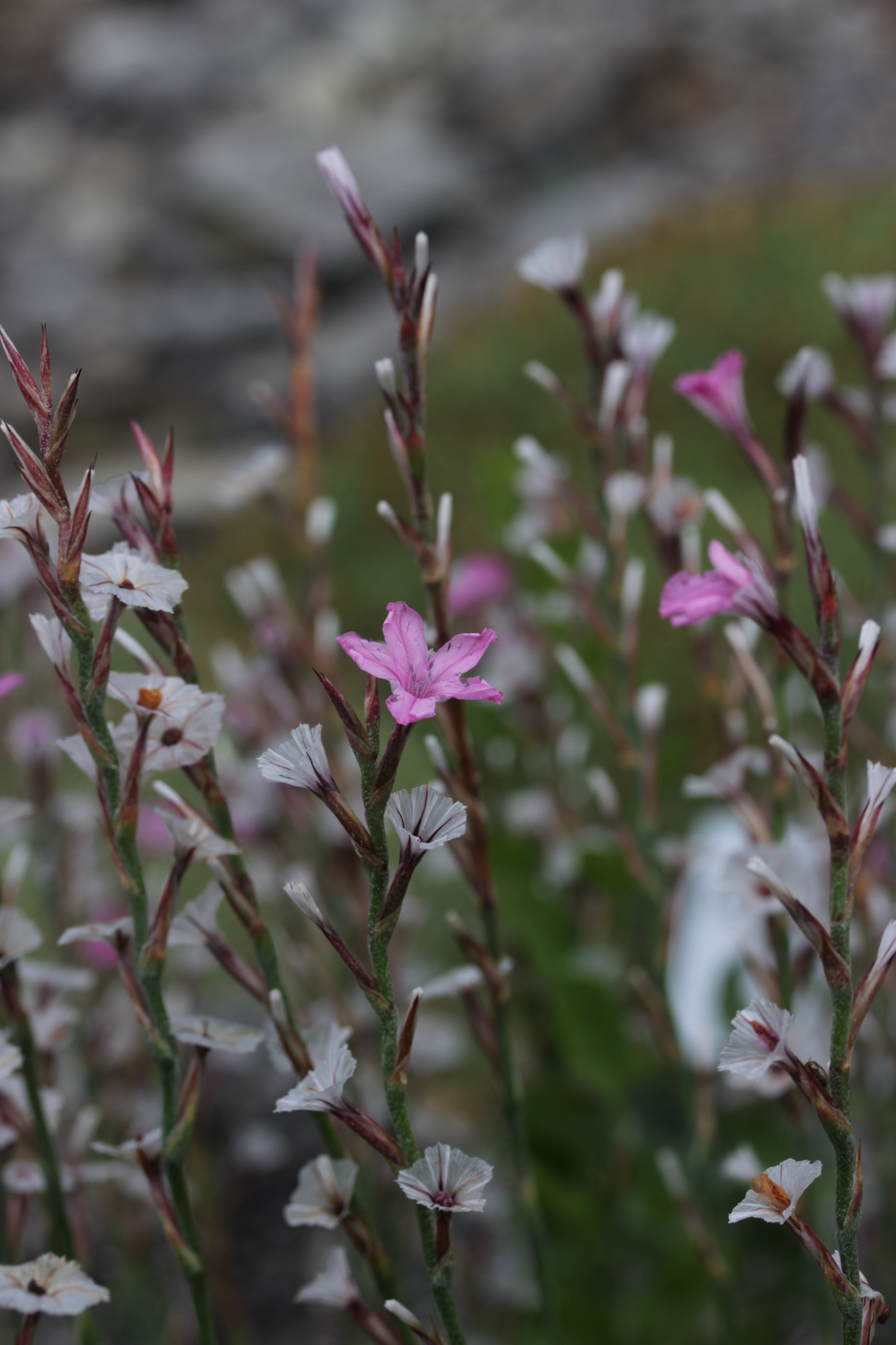 Prickly Thrift - Acantholimon kotschyi